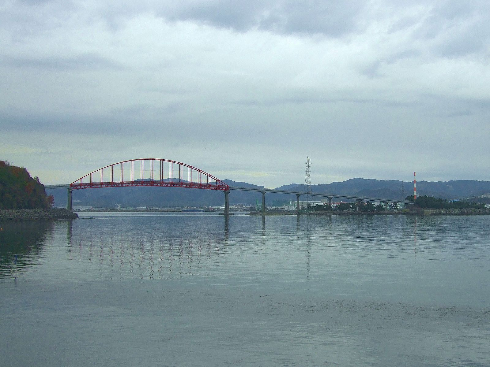 Kasado Bridge, between Higashi-Toyoi and Kasado Island, Kudamatsu City, Yamaguchi, Japan.